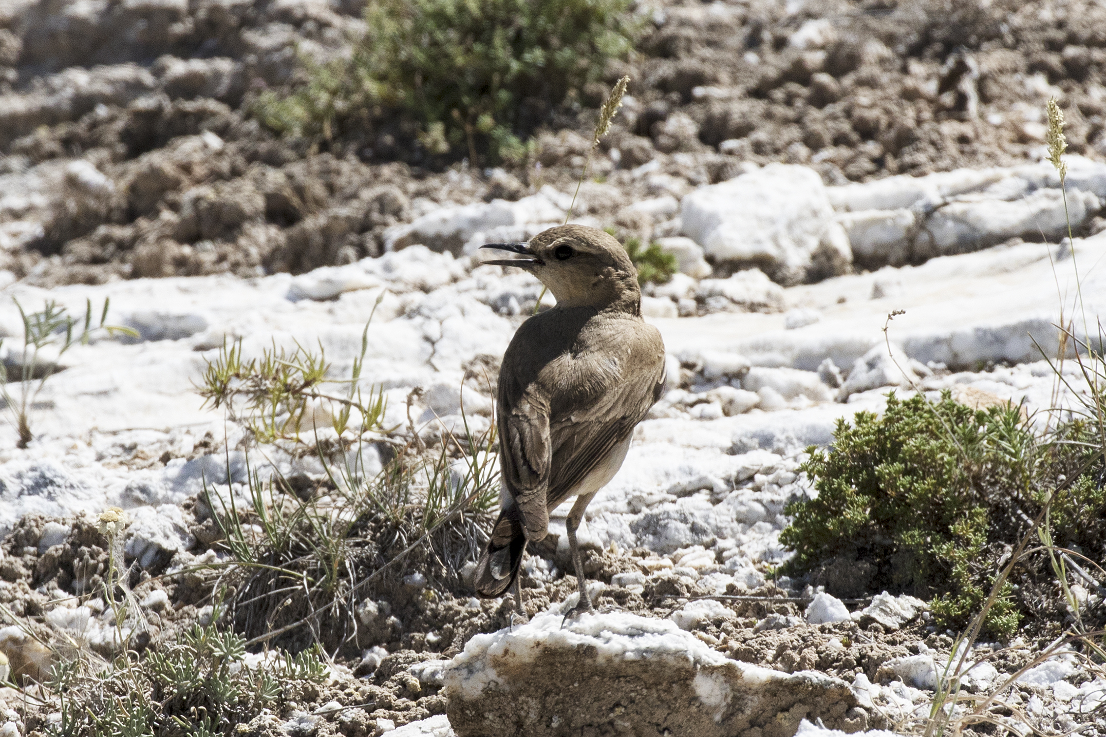 Isabelline wheatear (Oenanthe isabellina). Lake Tödürge, Zara - Sivas, Turkey.